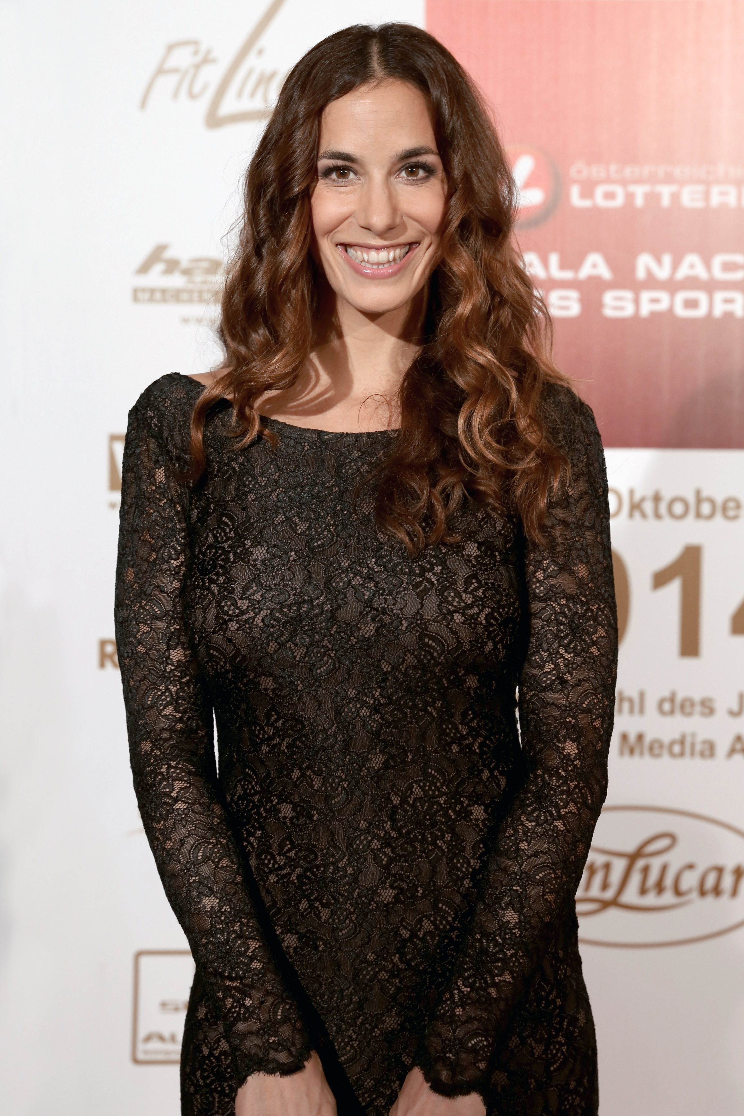 Nina Hartmann on the red carpet at the award show for the Austrian Sportspersonalities of the Year 2014 (Austria Center Vienna).